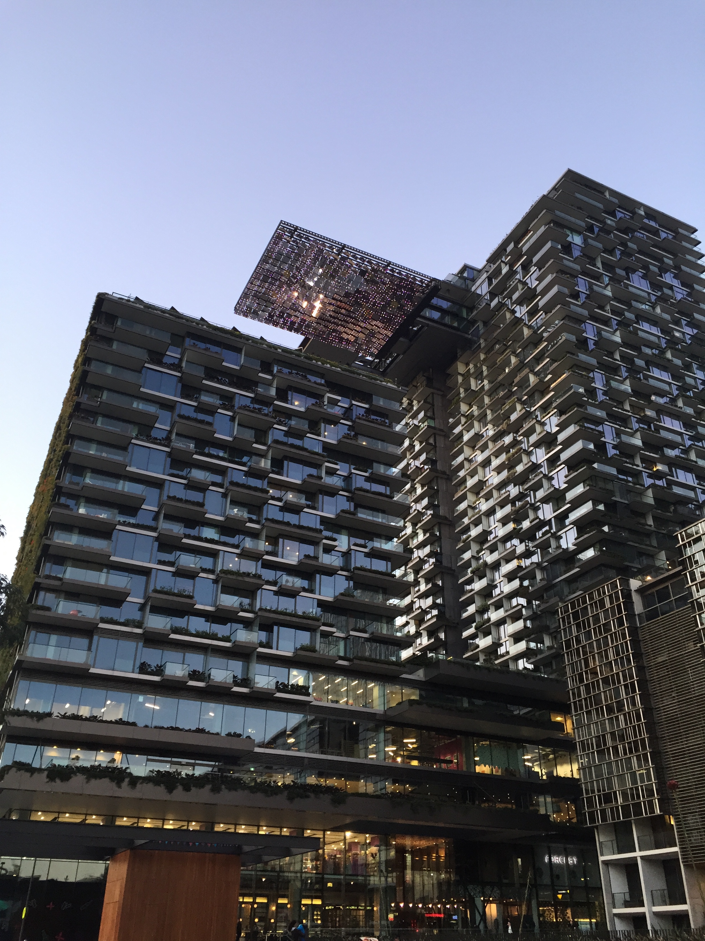 The cantilevered heliostat of One Central Park is attached to the eastern tower of the complex.